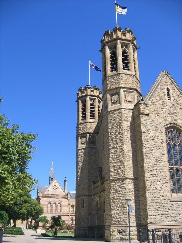 The University of Adelaide's Bonython Hall at North Terrace campus.